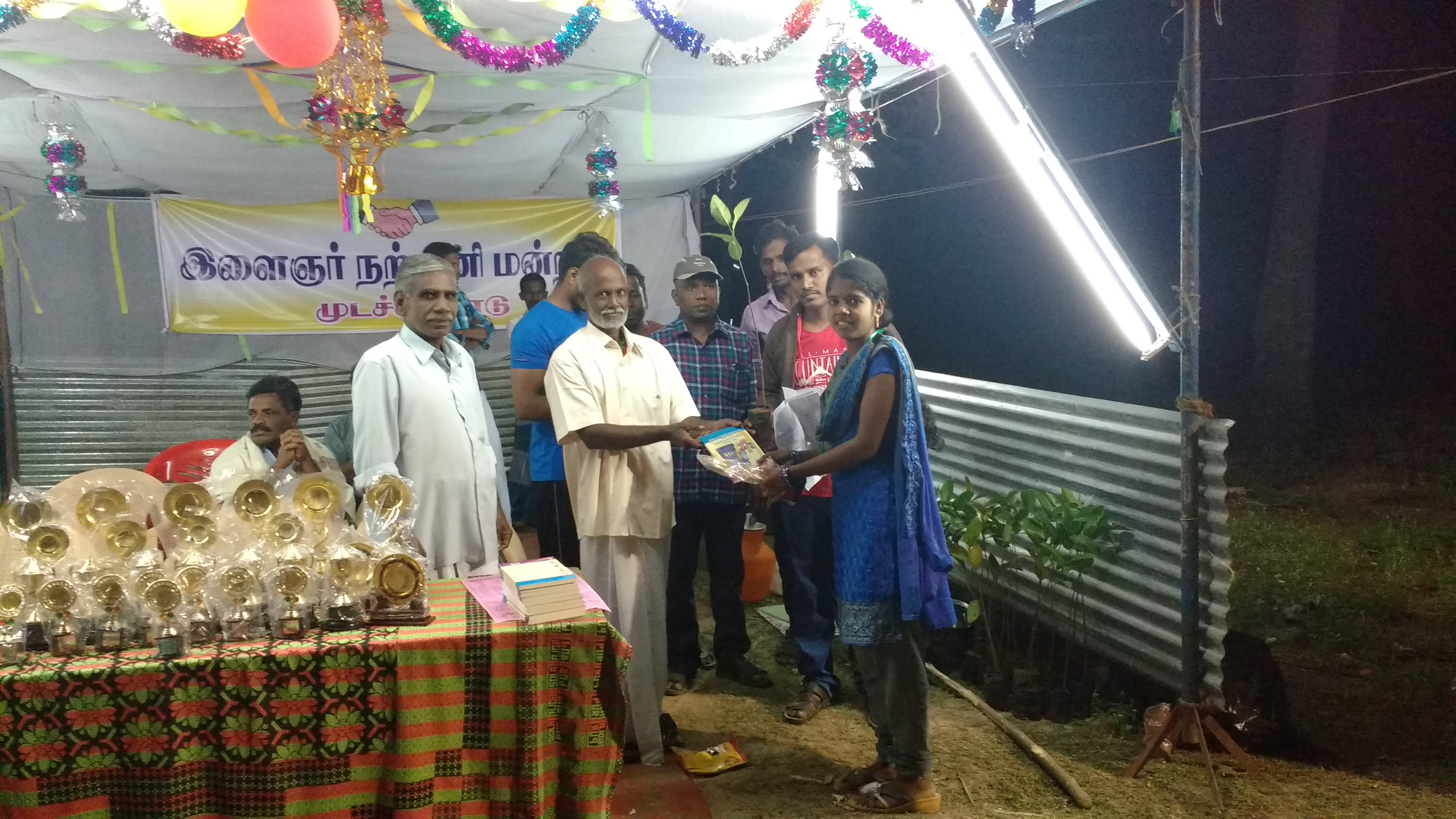 முடச்சிக்காடு முடச்சிக்காடு இளைஞர் மன்றம் பொங்கல் விழா mudachikkadu pongal function